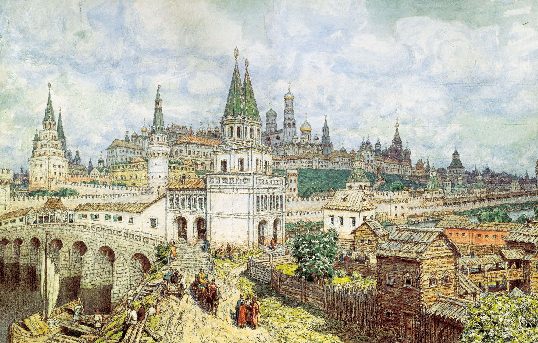 A. M. Vasnetsov’s ‘The heyday of the Kremlin. All Saints Bridge and the Kremlin at the end of the 17ᵗʰ century’. 1922. Watercolor, charcoal and pencil on paper mounted on cardboard. 64 × 109 cm (25.1 × 42.5 in). Museum of Moscow, Moscow, Russia.